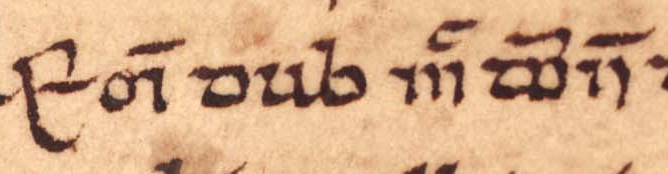 An excerpt from folio 76v of Oxford Bodleian Library MS Rawlinson B 489 (the Annals of Ulster). The excerpt concerns Eóin Dubh Mac Domhnaill (died 1349).